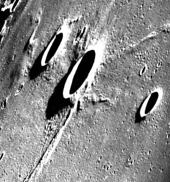 Sinas lunar crater (image center), satellite craters Sinas E (top left) and Sinas A (right). Part of the Apollo-8 image AS08-13-2346.